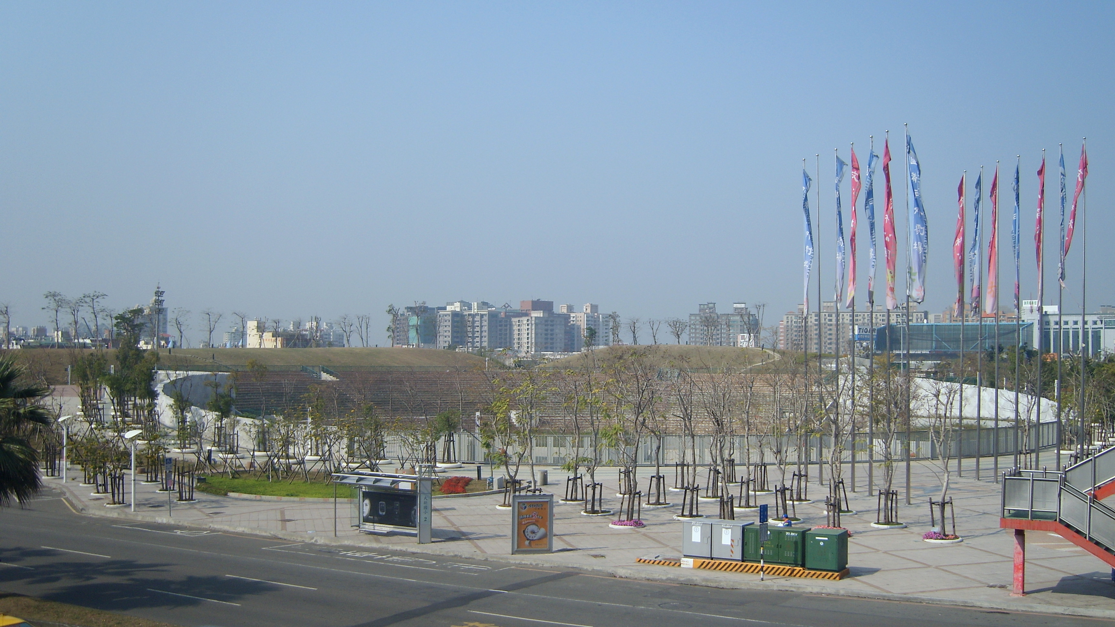 Fulfillment Amphitheatre of Wen-Hsin Forest Park in Taichung City.